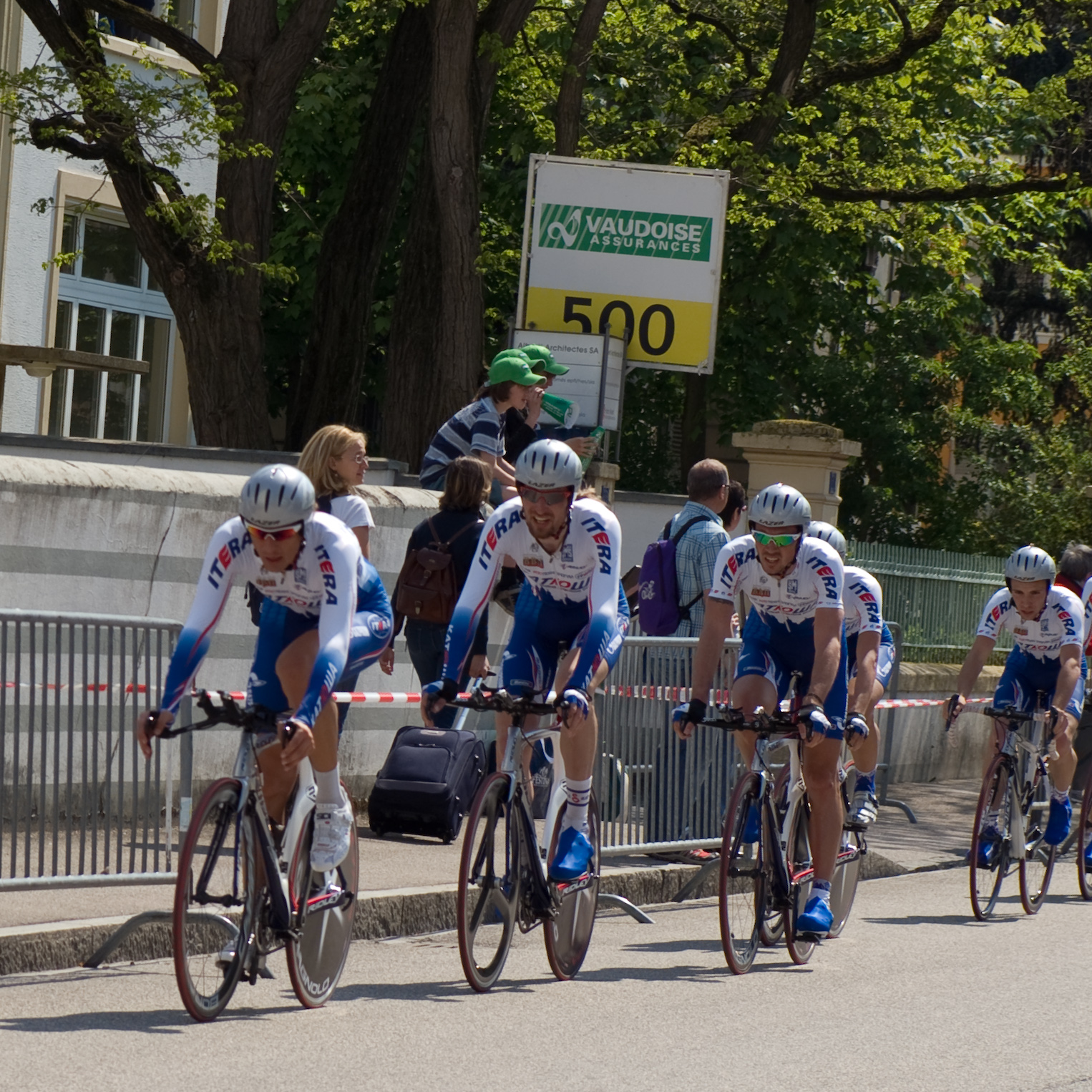 Tour de Romandie 2009 - 3rd stage - team time trial